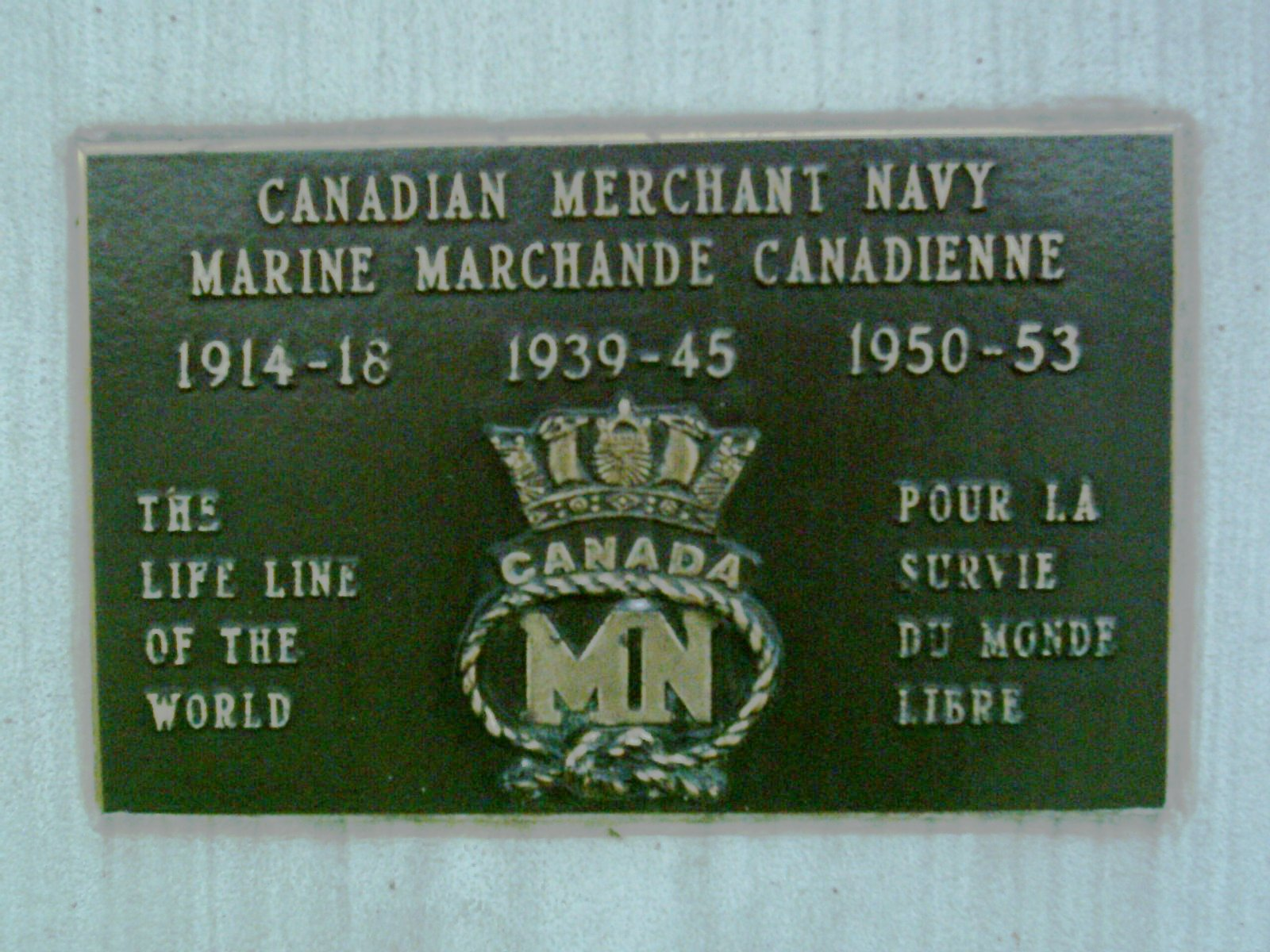 Montreal Clock Tower, Canadian Merchant Navy